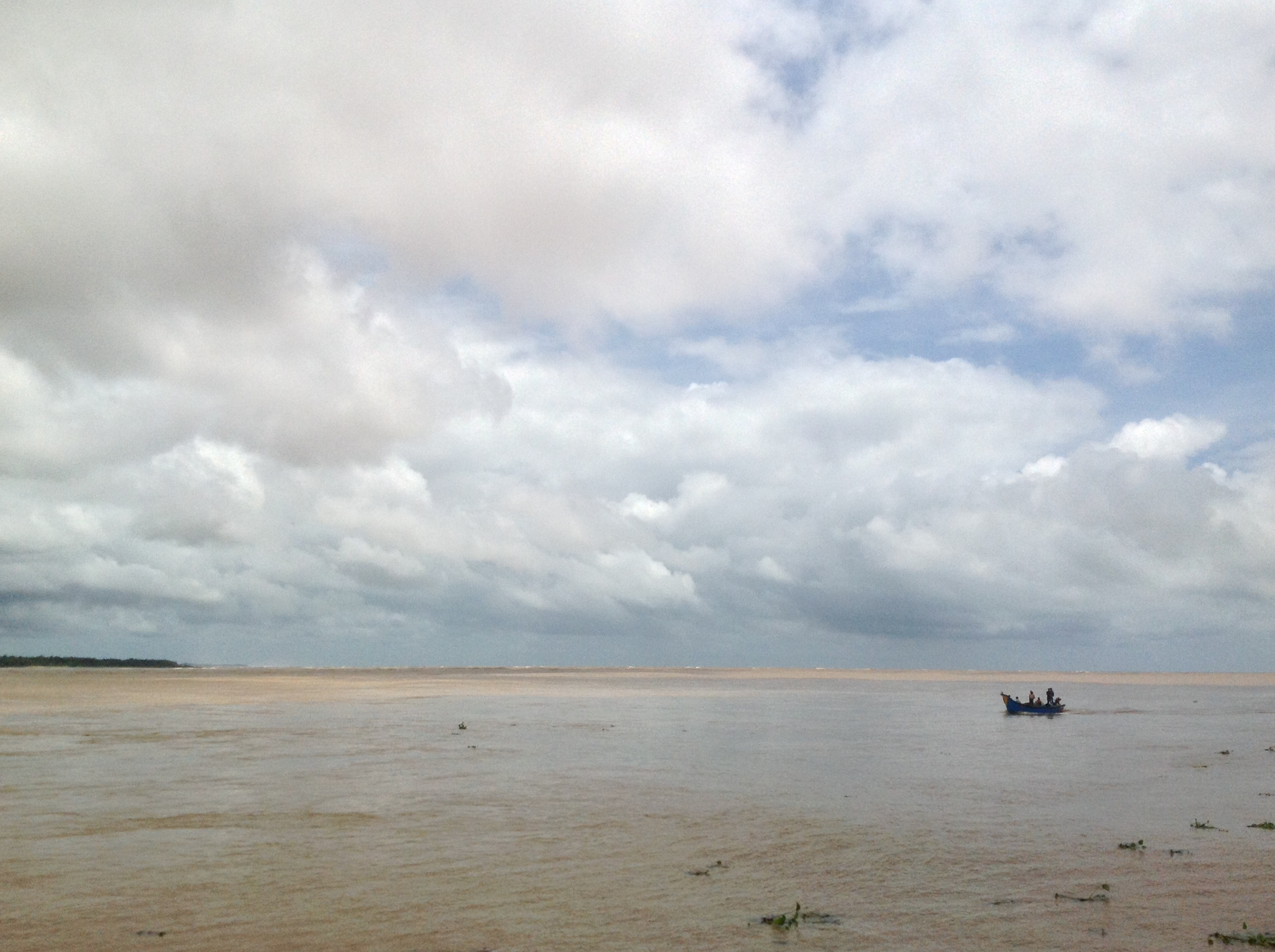 River mouth of Mahanadi to Bay of Bangal, Paradeep, Odisha.